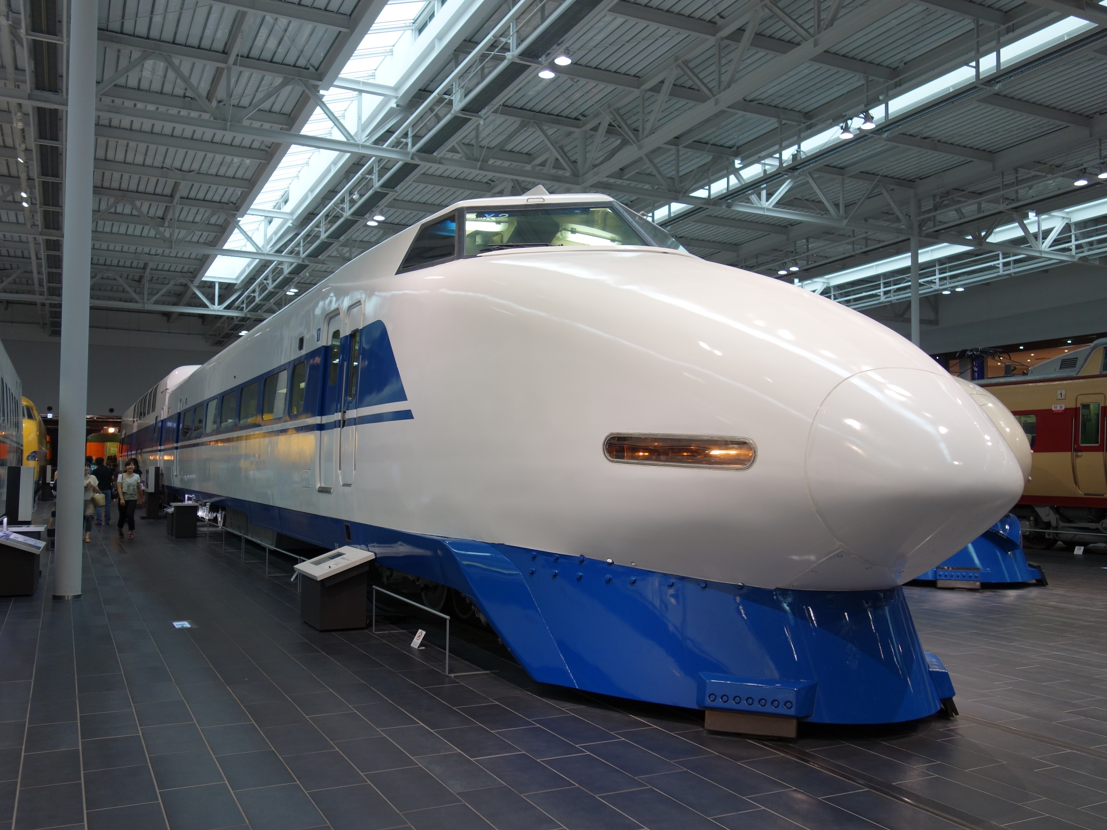 Former JR Central 100 series shinkansen car 123-1 of set X2 preserved at the SCMaglev and Railway Park museum in Nagoya, Japan